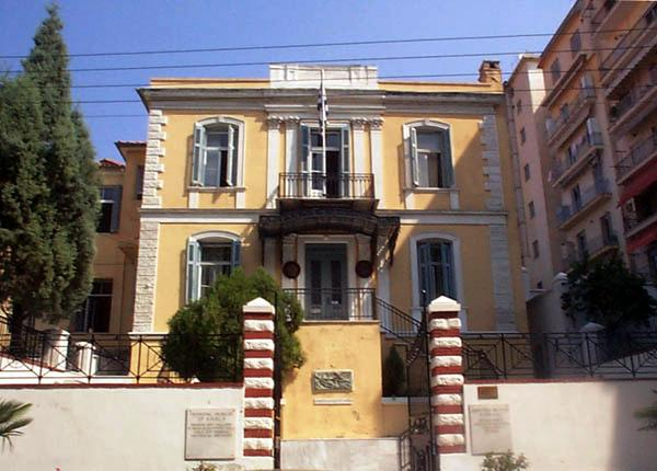 View from outside, image from the Municipal Museum, Kavala, East Macedonia, Greece